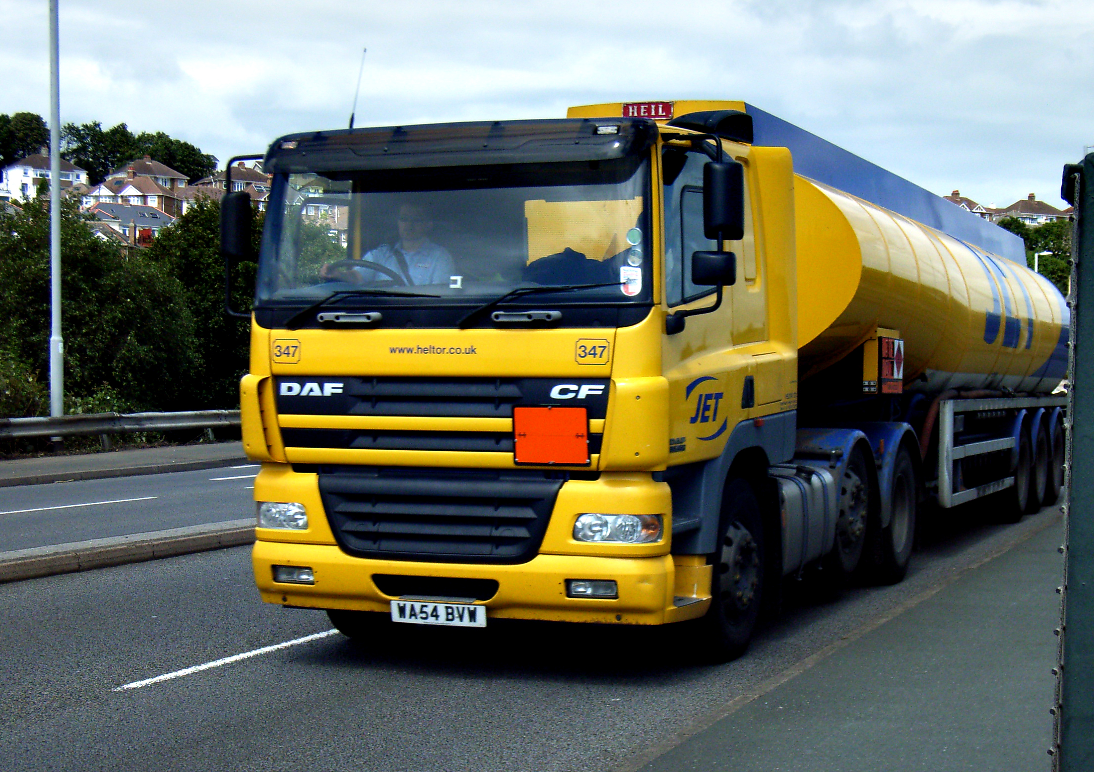 Embankment Road Laira Plymouth 15 July 2009